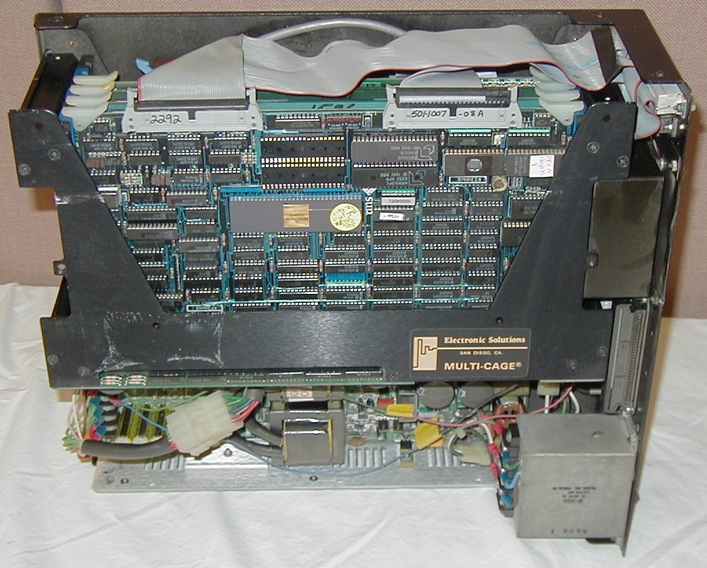 Sun 100Y Cardcage and Powersupply Photo taken by Robert Harker (me), October 2003